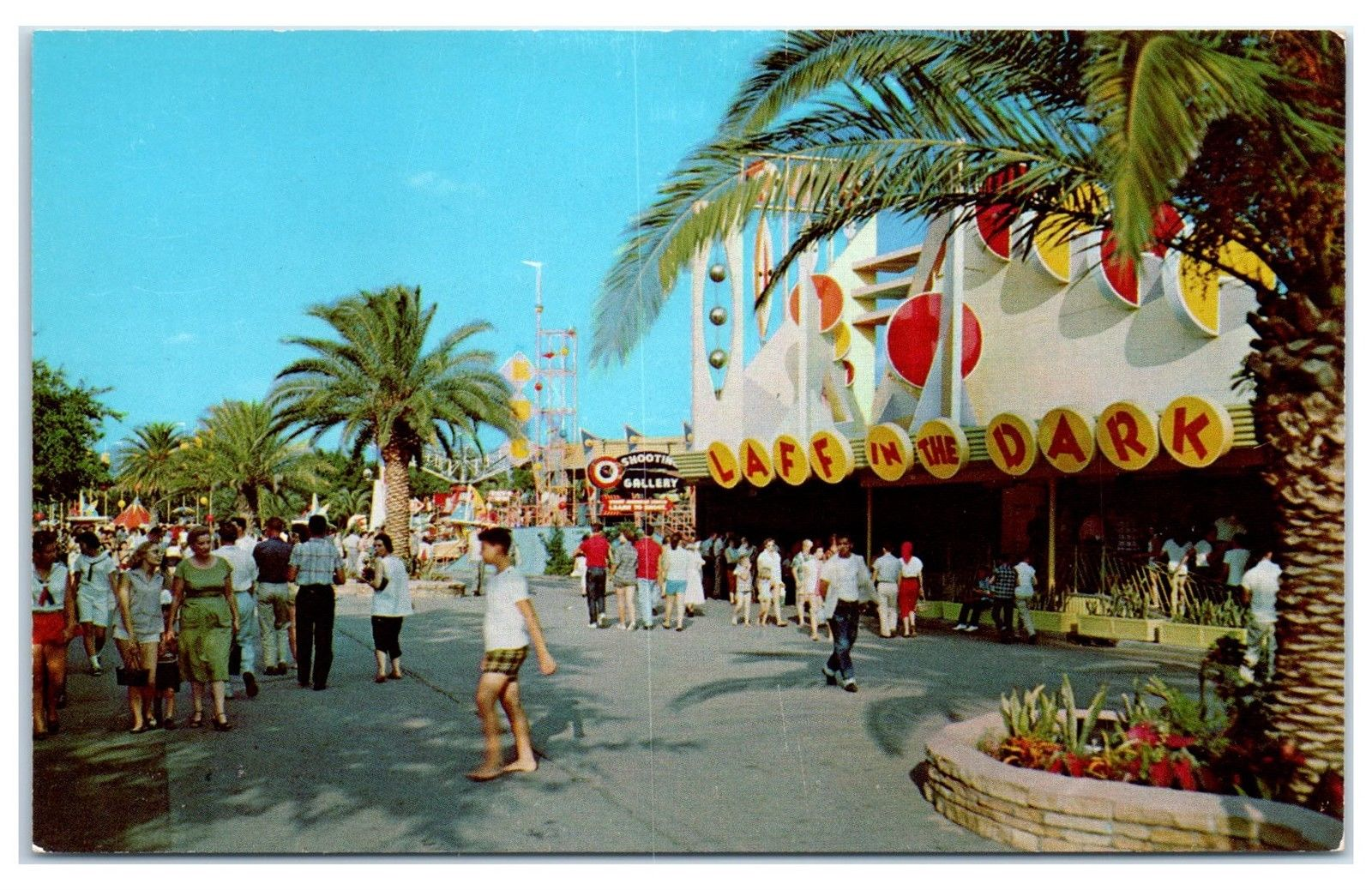 Postcard of Pontchartrain Beach amusement park, New Orleans; people walking on midway; at right "LAFF in the DARK" ride building; further back "SHOOTING GALLERY". Not dated; lack of zip code confirms no later than 1963. Looks to be late 1950s or more likely start of 1960s.